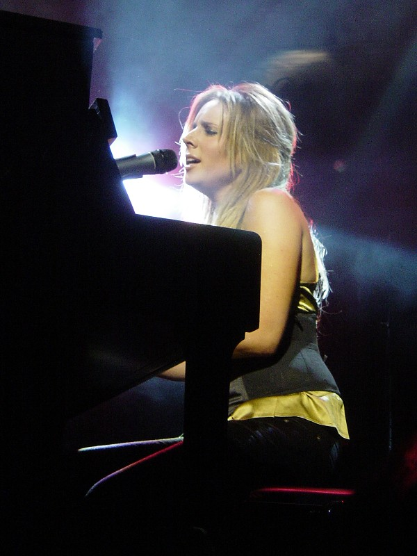 Lucie Silvas live on stage for her album launch "The Same Side" in Paradiso Amsterdam, the Netherlands, 12 Oct 2006